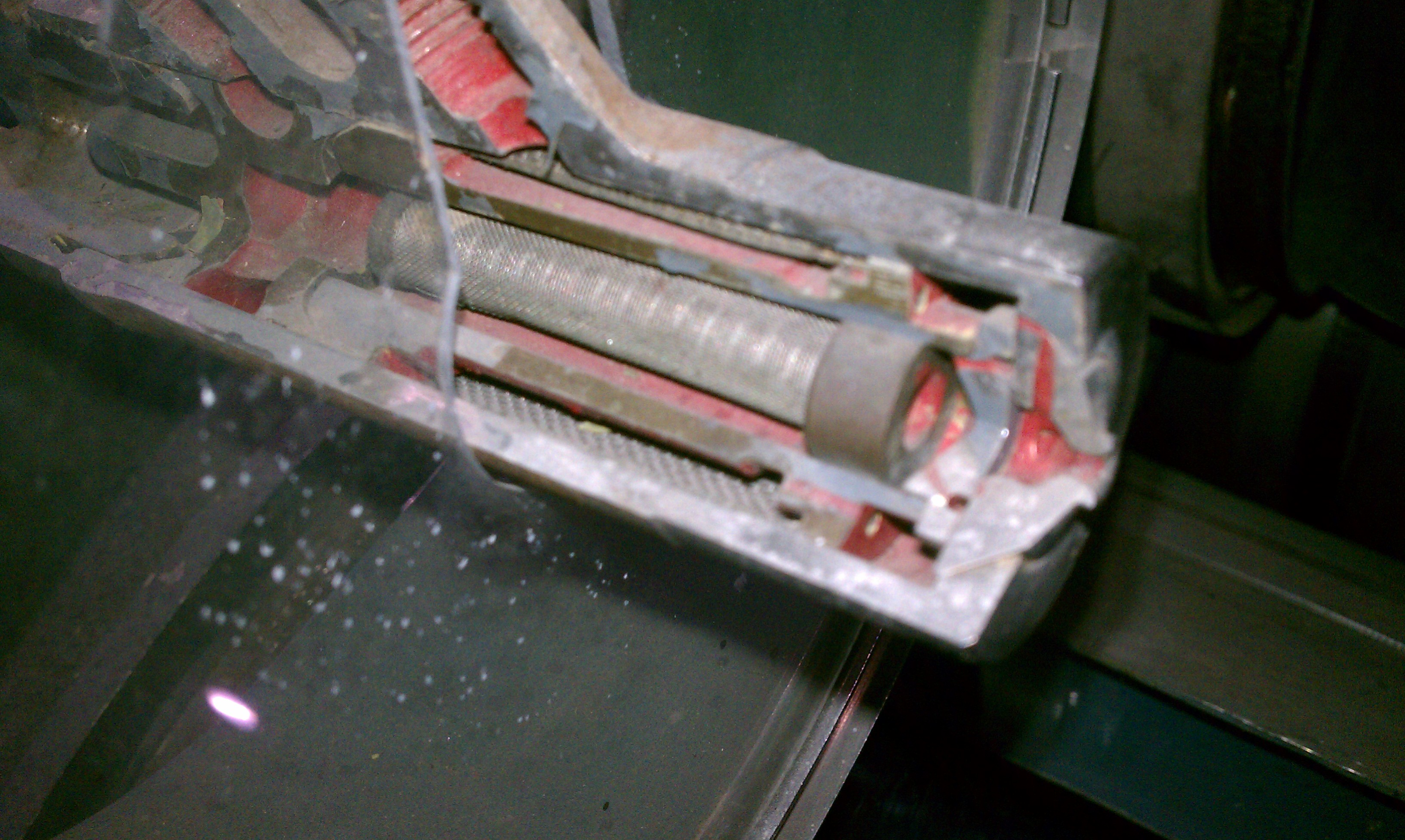 A cutaway view of the fuel atomizer of the J-35-A-4 combustor. Taken from the display at the Southern Museum of Flight.